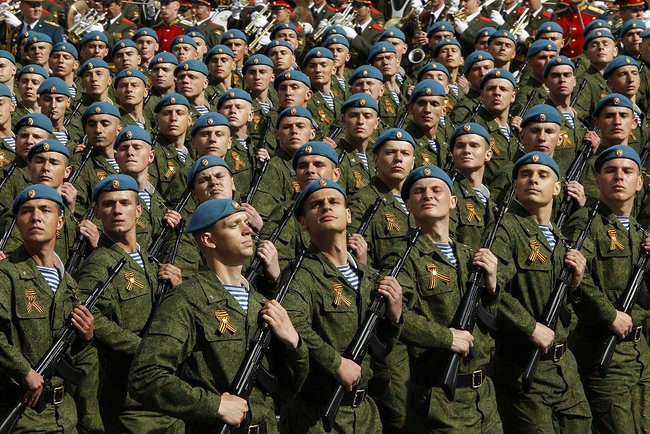 Die Militärparade zum 66-jährigen Jubiläum des Sieges in Moskau im Jahr 2011.